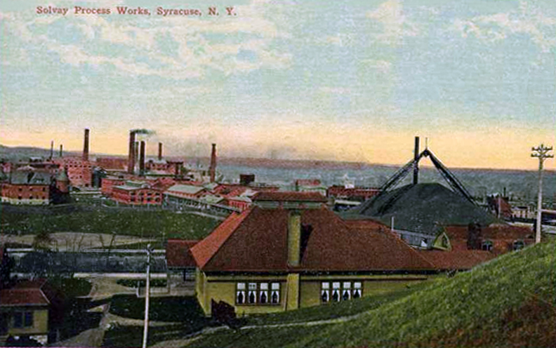 Solvay Process Works outside Syracuse, New York - about 1900